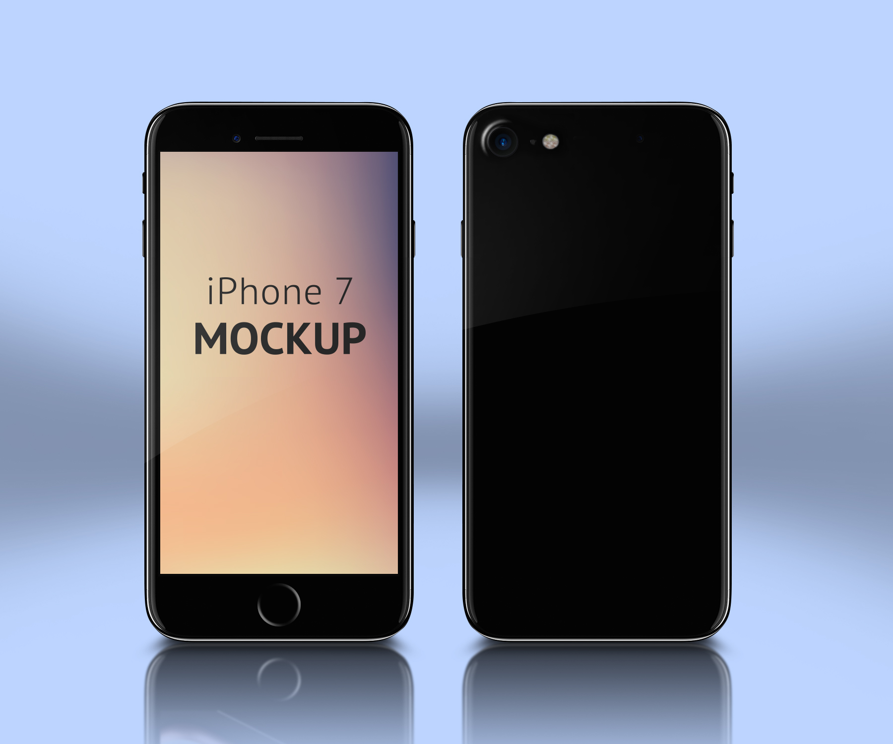 Mockup of the new smartphone from Apple: the iPhone 7. Design includes both the front and the back.